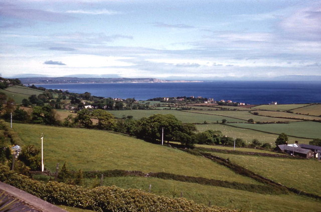 Ramsey Bay - MAY 1960 This view was taken from the main road between Douglas and Ramsey